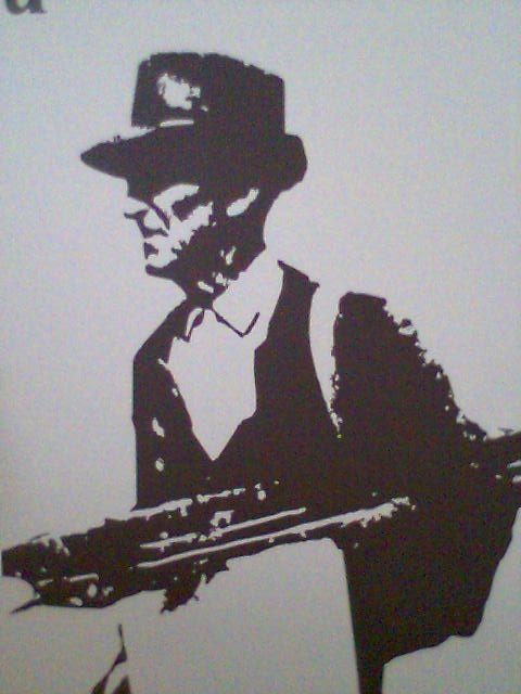 Josef Jambor